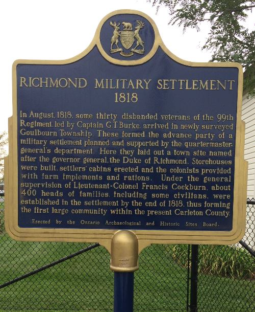 Monument on Perth Street (main street) in Richmond Ontario Canada describing the history of Richmond. The title is "Richmond Military Settlement 1818".